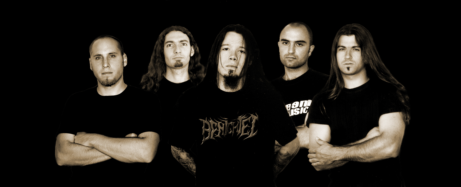 Line-up in 2007 of the french band Kronos. From left to right:Tom (bass and vocals), Richard (guitar), Kristof (vocals), Mike (drums), Grams (guitar).